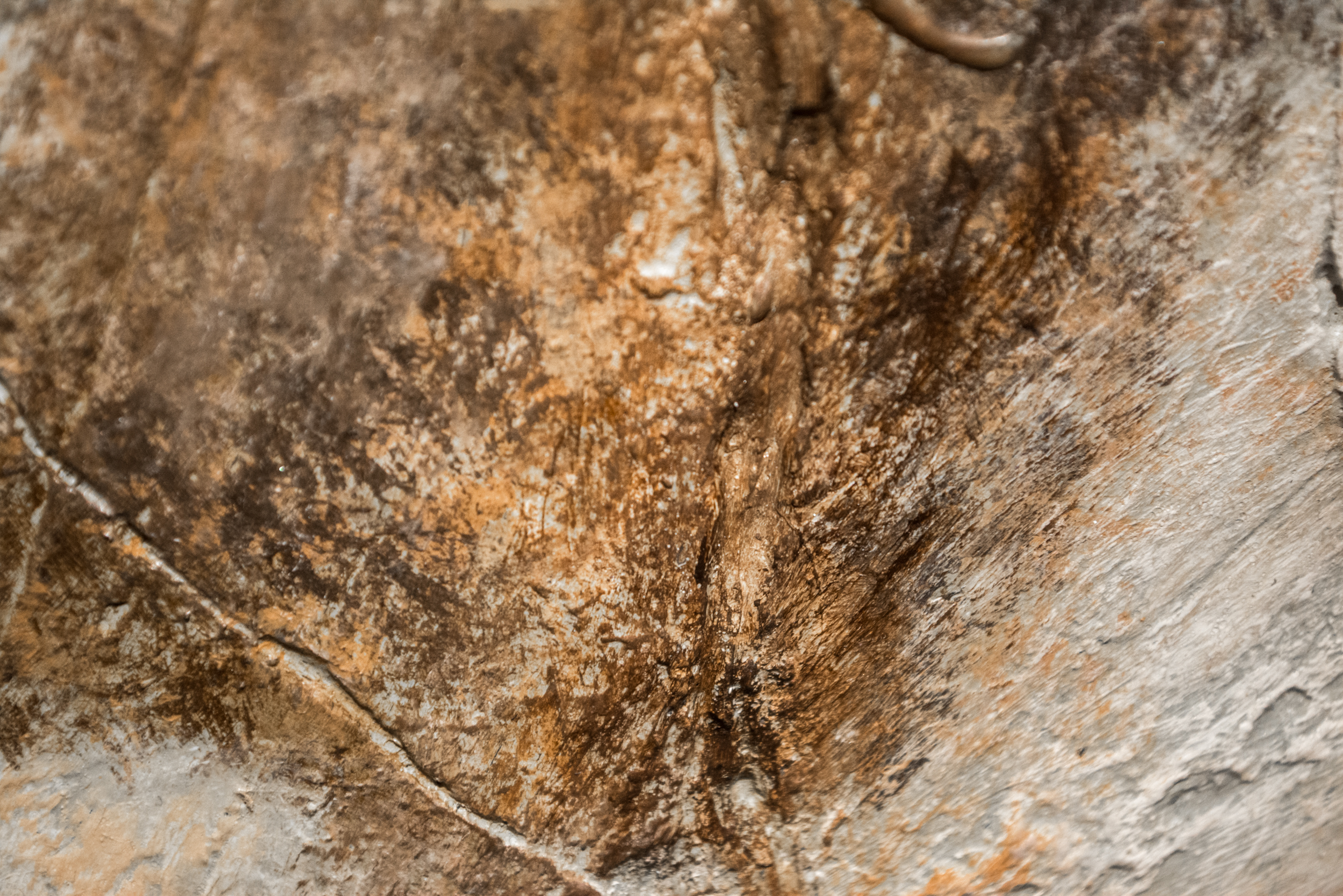 blood vessel details - cast of Thalassodromeus sethi - Pterosaurs Flight in the Age of Dinosaurs